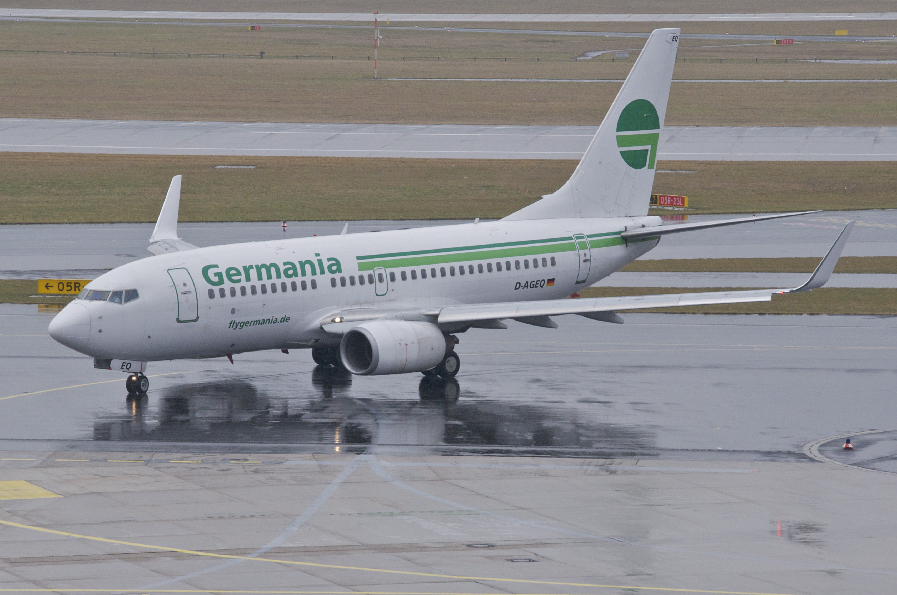 This Boeing 737-75B took its first flight on July 17, 1998...(c/n 28103/ 23) 31/07/1998 Germania D-AGEQ 01/12/2002 Hapag-Lloyd Express D-AGEQ 15/01/2007 TUIfly D-AGEQ 23/02/2008 Germania D-AGEQ